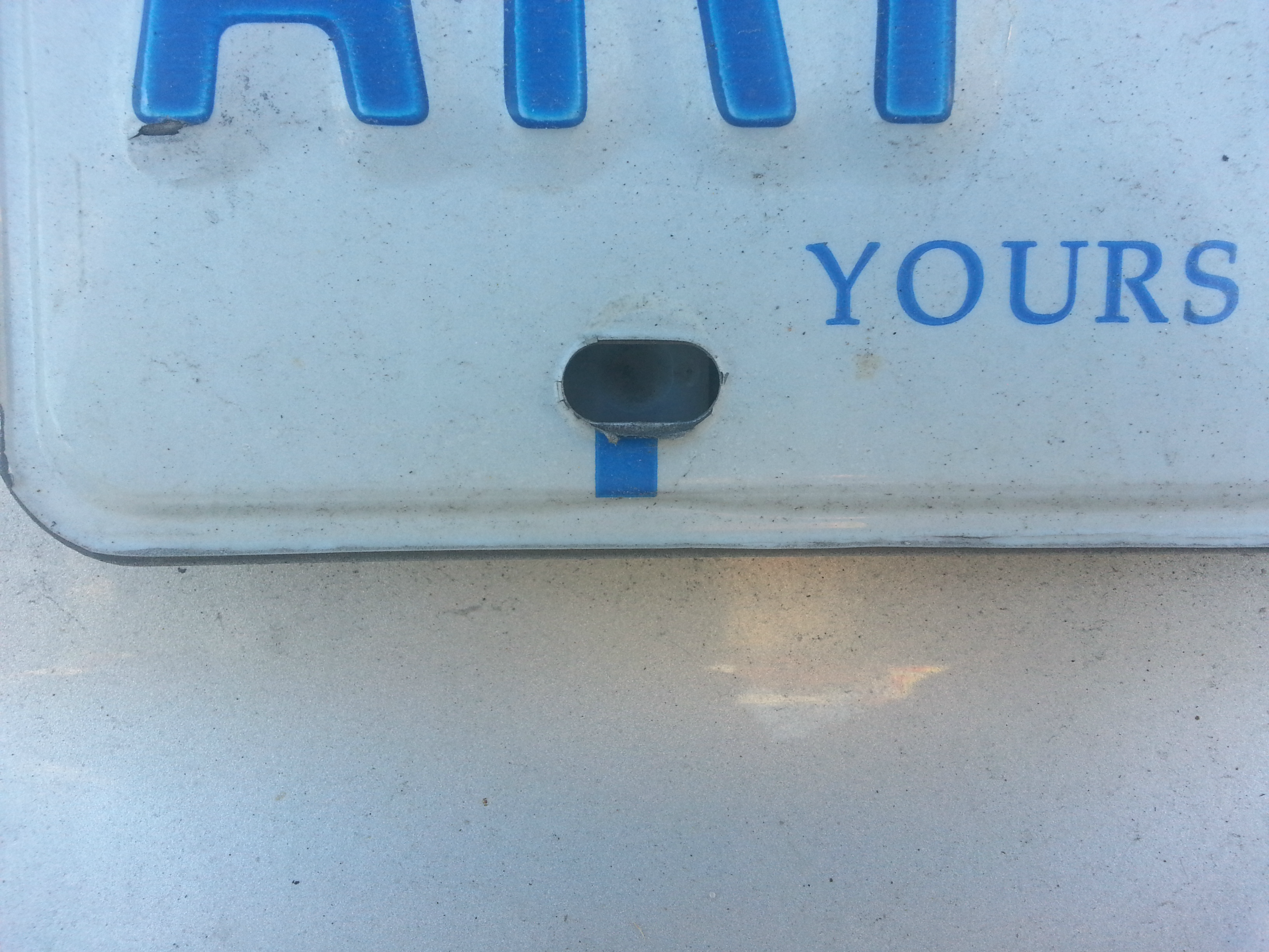 Between 1999 and 2003, Ontario license plates were manufactured with Avery brand reflective backing material. When compared to previous plates, these plates are characterised by a shiner finish, smaller sized letters for the makerting slogan, and presence of a registration mark below the left bolthole to assist lining up stamping machines.